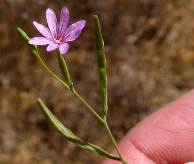 Epilobium brachycarpum at Rocky Oaks: Rocky Oaks loop trail, Santa Monica Mountains National Recreation Area, California, USA.